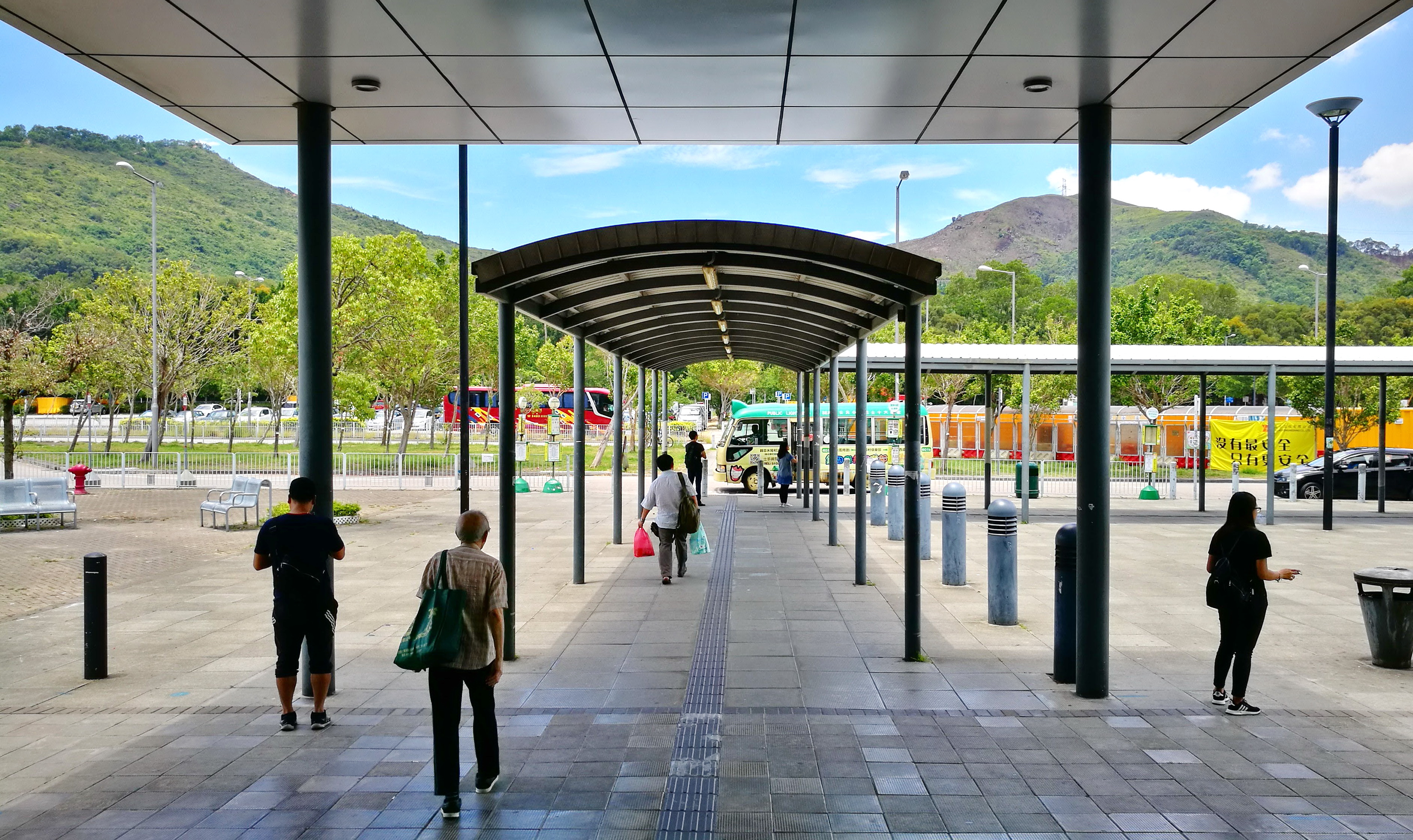 View from Kam Sheung Road Station, Exit C, Hong Kong.